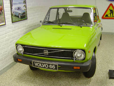 Volvo 66 was created 1975 by Volvo, when thay took over the Daf plant in the Netherlands. It´s mostly a facelift of Daf 66. first upload: 11:07, Aug. 16, 2004 - Wikipedia by User:Mangan2002